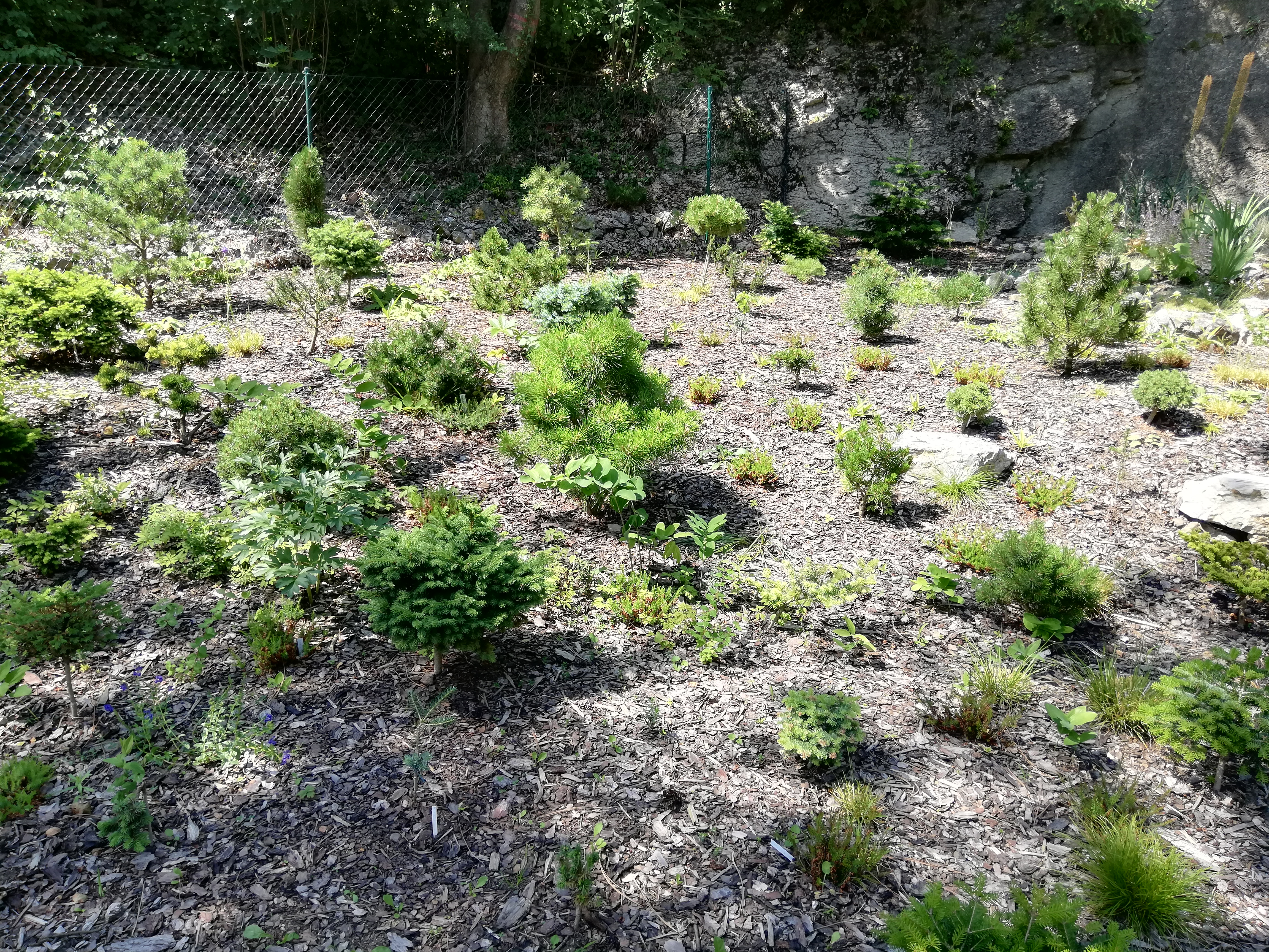 A flower bed with a lot of Witch's brooms. Internal area of The Rock Garden in Hlubočepy (Prague, Czech republic)